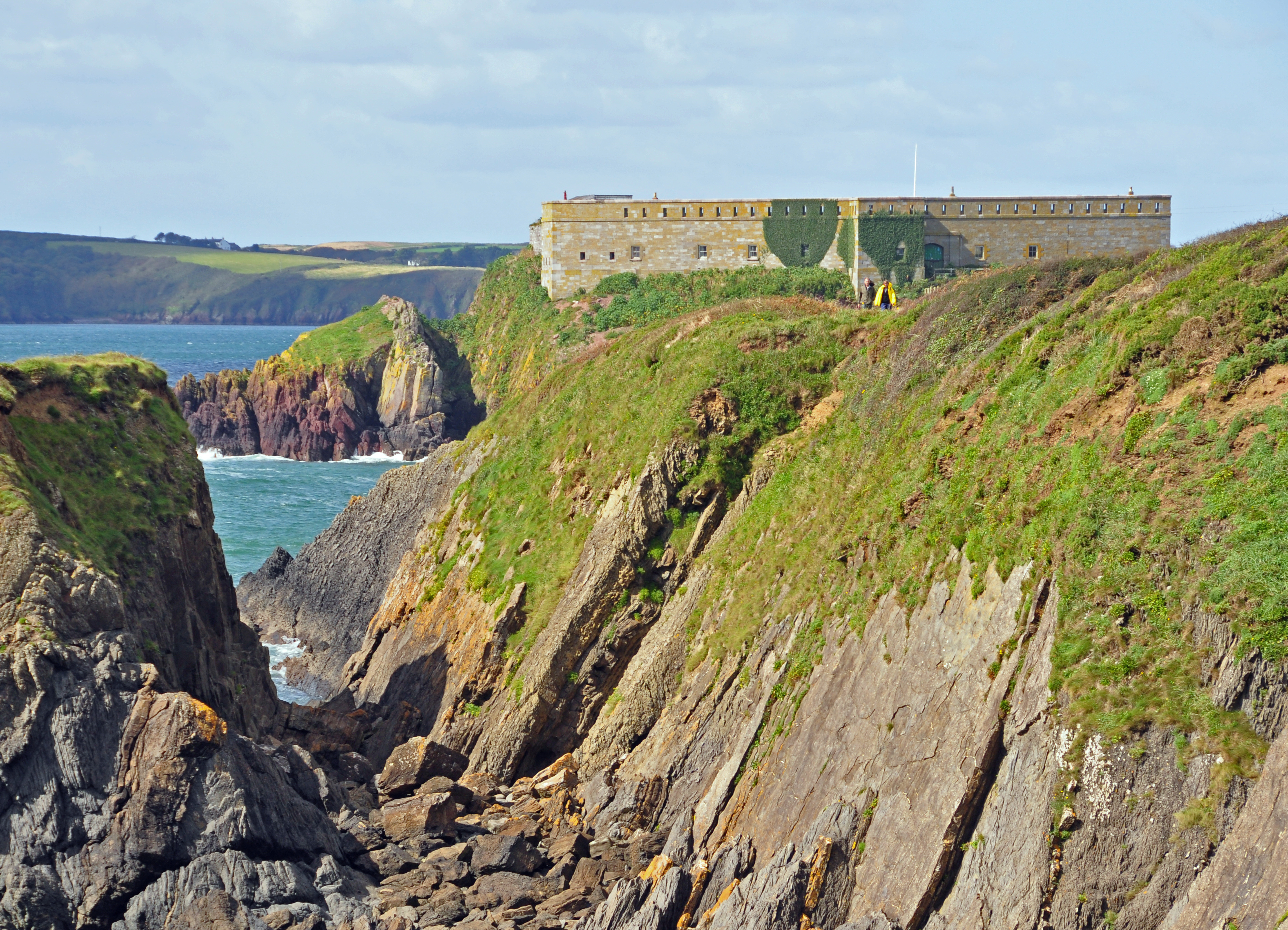 Thorne Island Fort seen looking Northwest from the Mainland Coastal Path with the Mainland in the Foreground